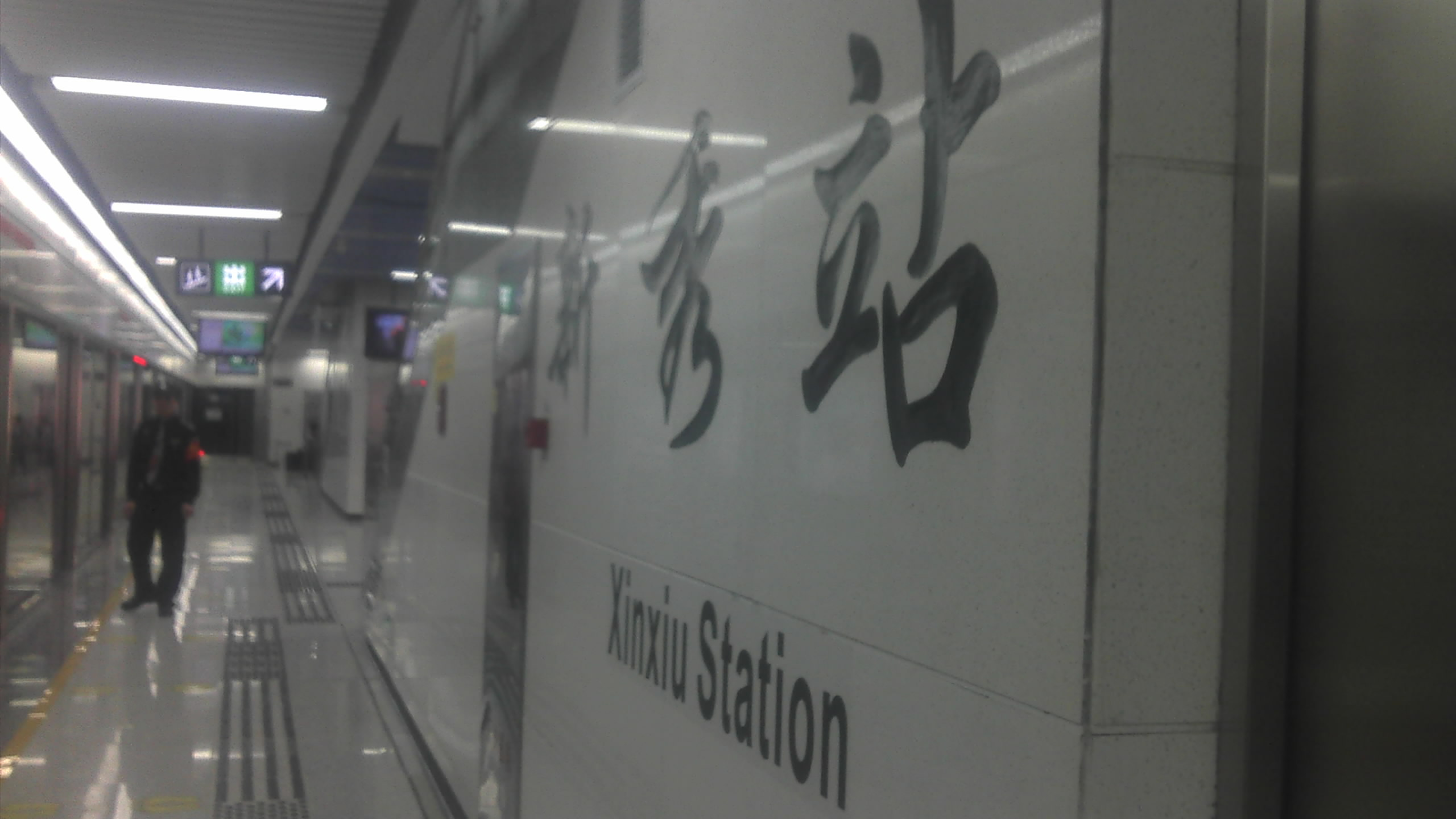 This photo was taken as Oct 14, 2011.